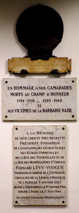 At the école communale de la rue des Hospitalières-Saint-Gervais (Paris, 4th arr.), three commemorative plaques dedicated to the memory of Lyon Leopold, Fernand Lévy-Wogue (1867-1944) and "camrades" fallen during the two World Wars.